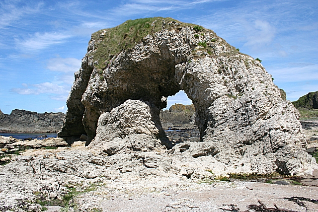 Natural Arch Sculpted by the sea out of the white chalk.